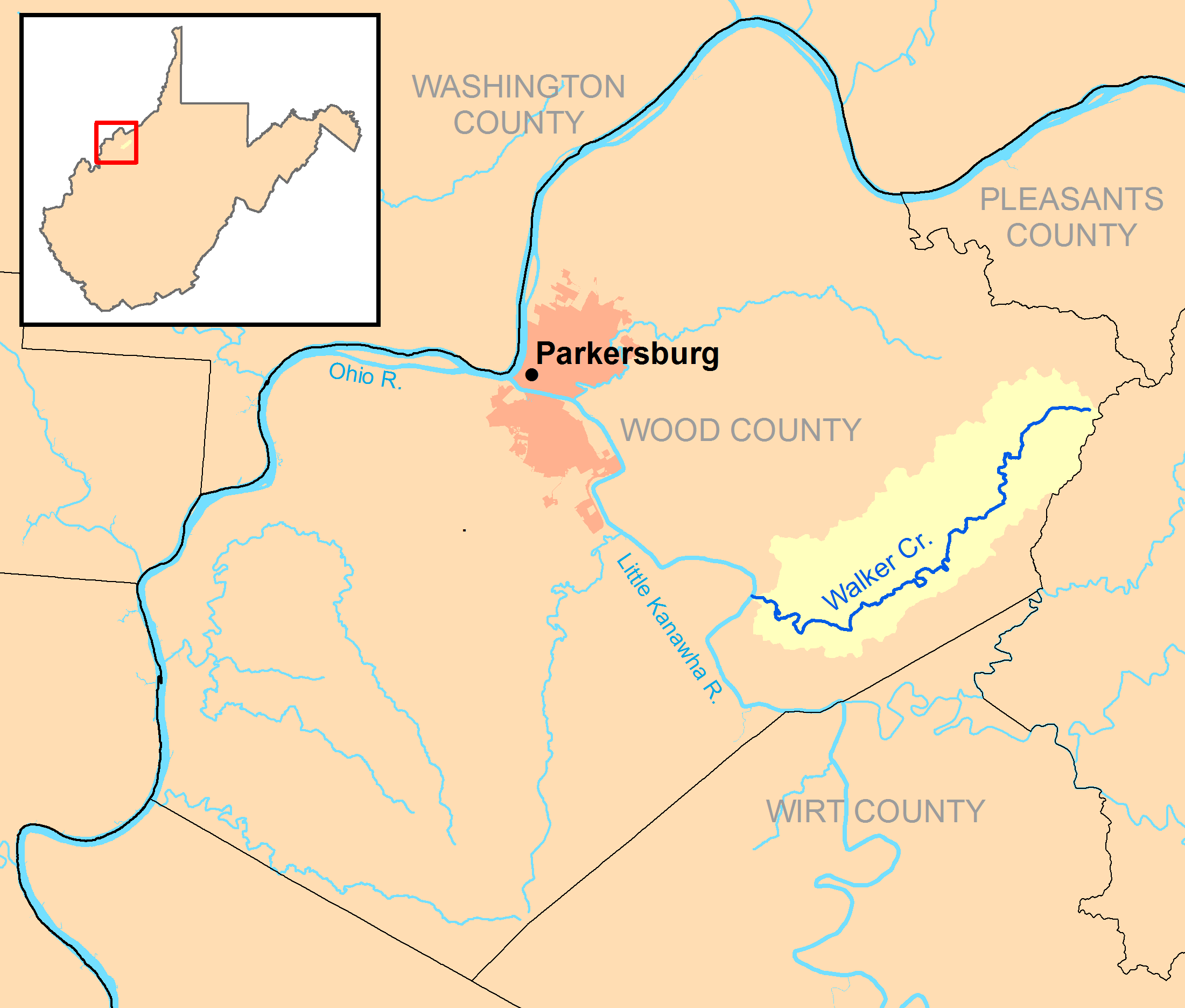 A map of Walker Creek and its watershed (USGS HUC 050302031302) in Wood County, West Virginia.